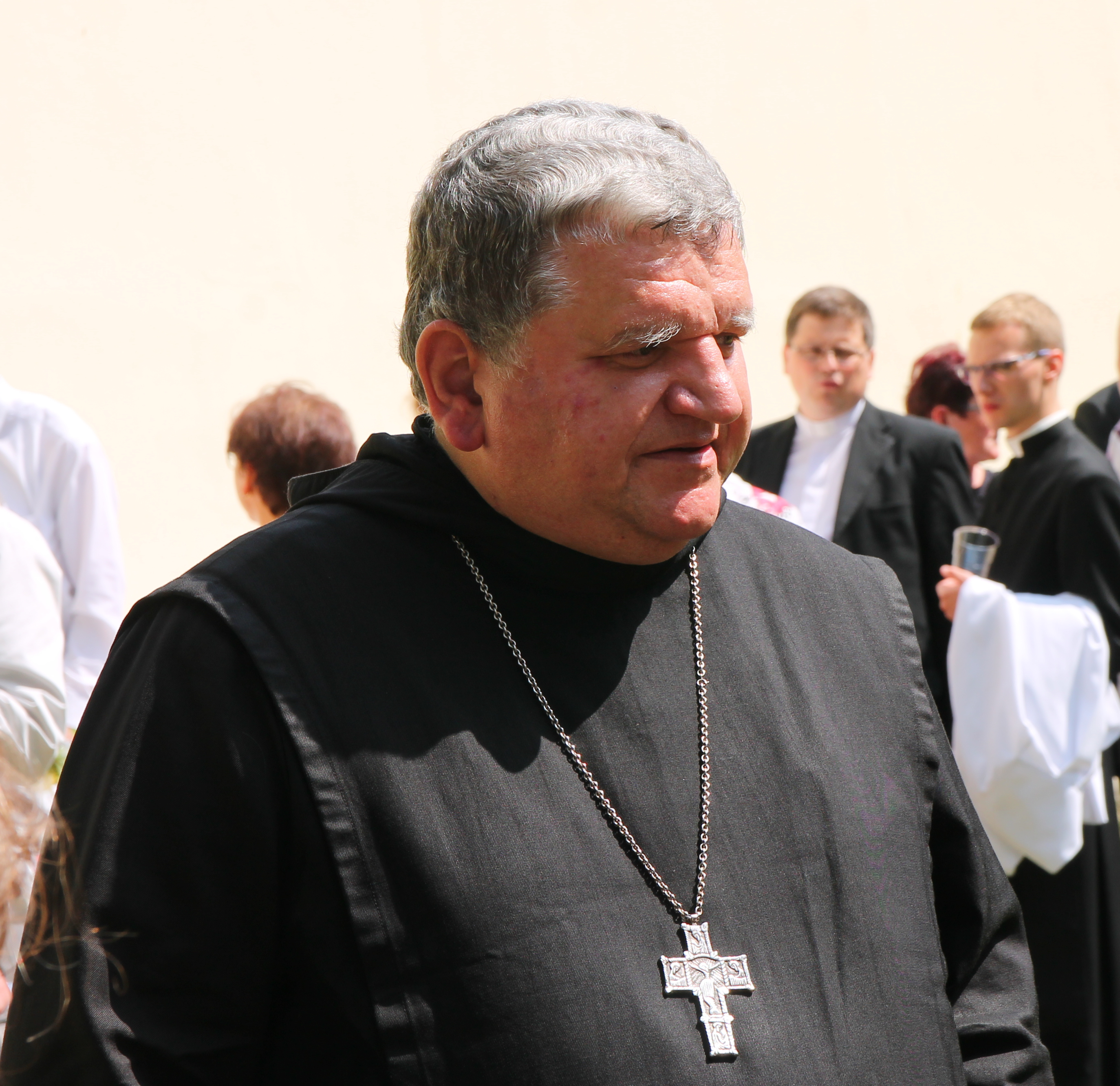 Prokop Siostrzonek during the episcopal ordination of Zdenek Wasserbauer held on May 19th, 2018, Prague